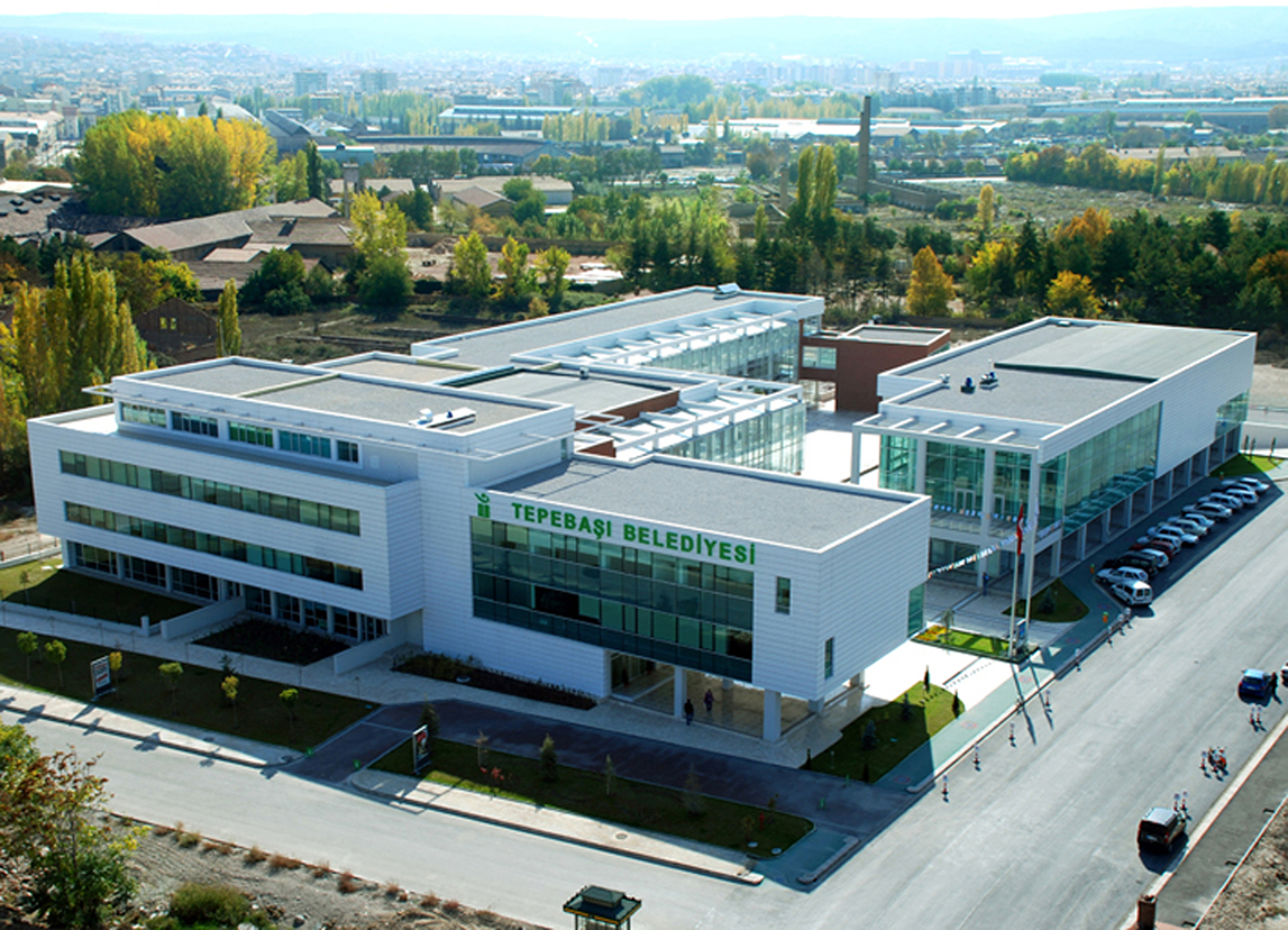 Tepebasi Belediyesi Hizmet Binası